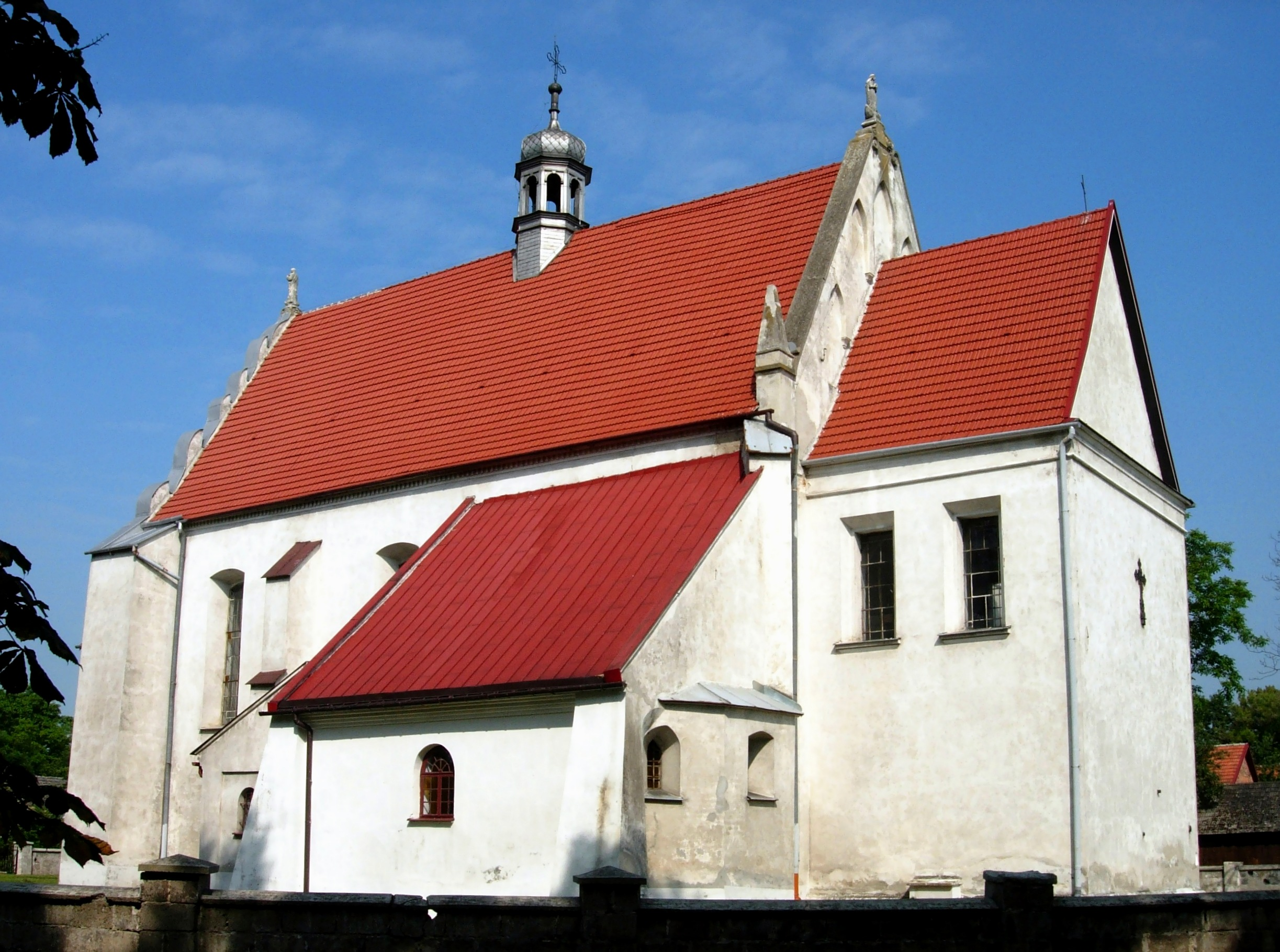 Saint James Church in Opatowiec, Poland